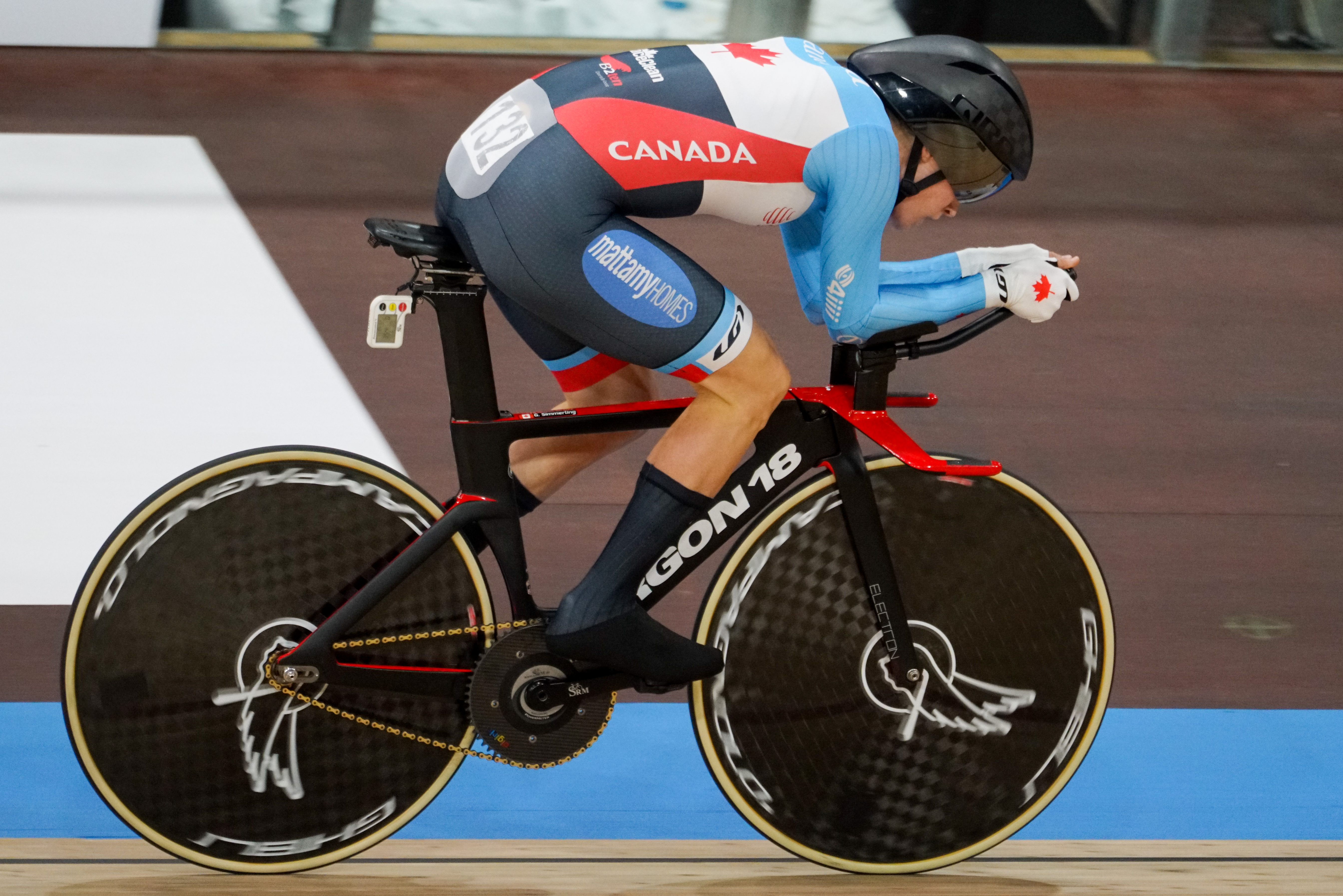 2020 UCI Track Cycling World Championships – Women's Individual Pursuit – Qualifying